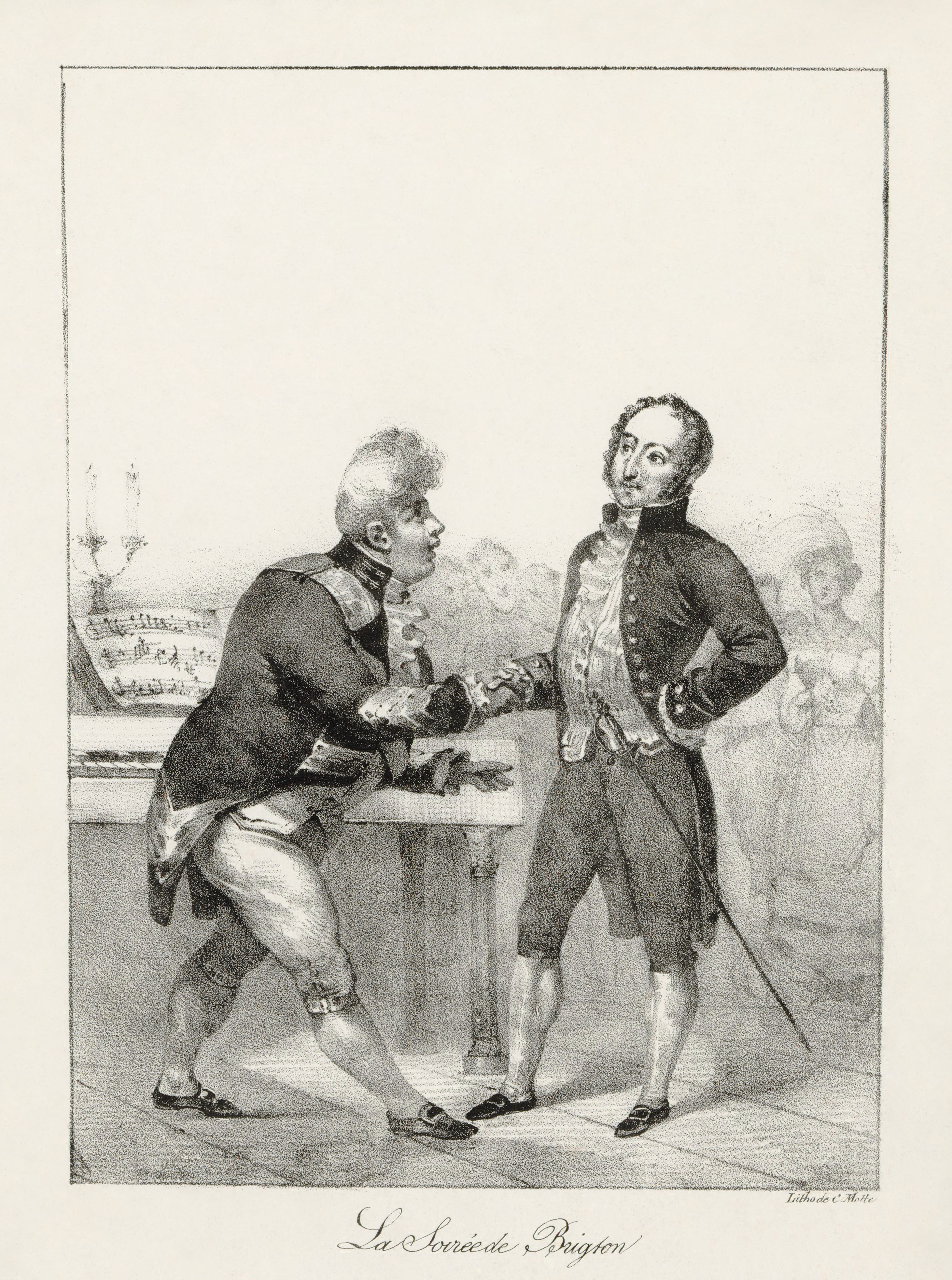 Gioachino Rossini's meeting with George IV of the United Kingdom at Brighton in 1823, as depicted in a lithograph by Charles Motte.